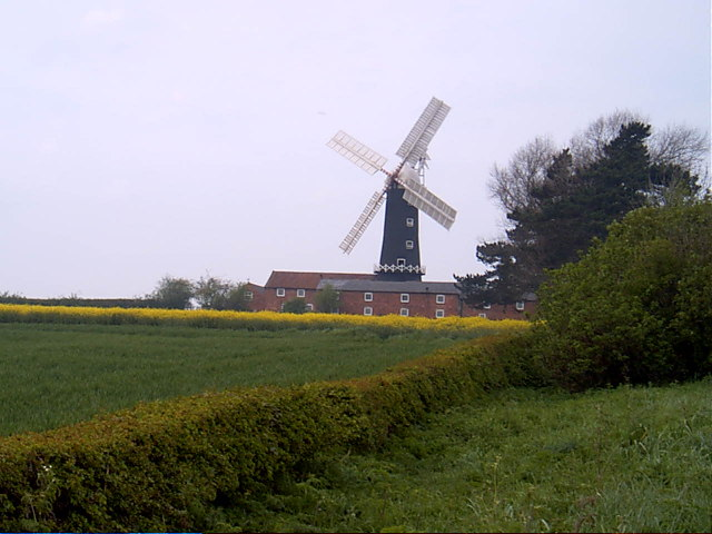 Skidby Windmil, Skidby, East Riding of Yorkshire, England.